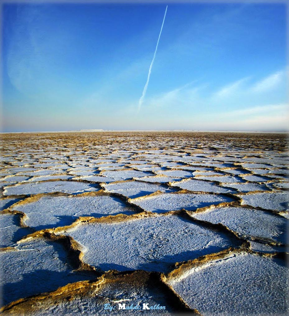 Hows-e Sultan salt flat.